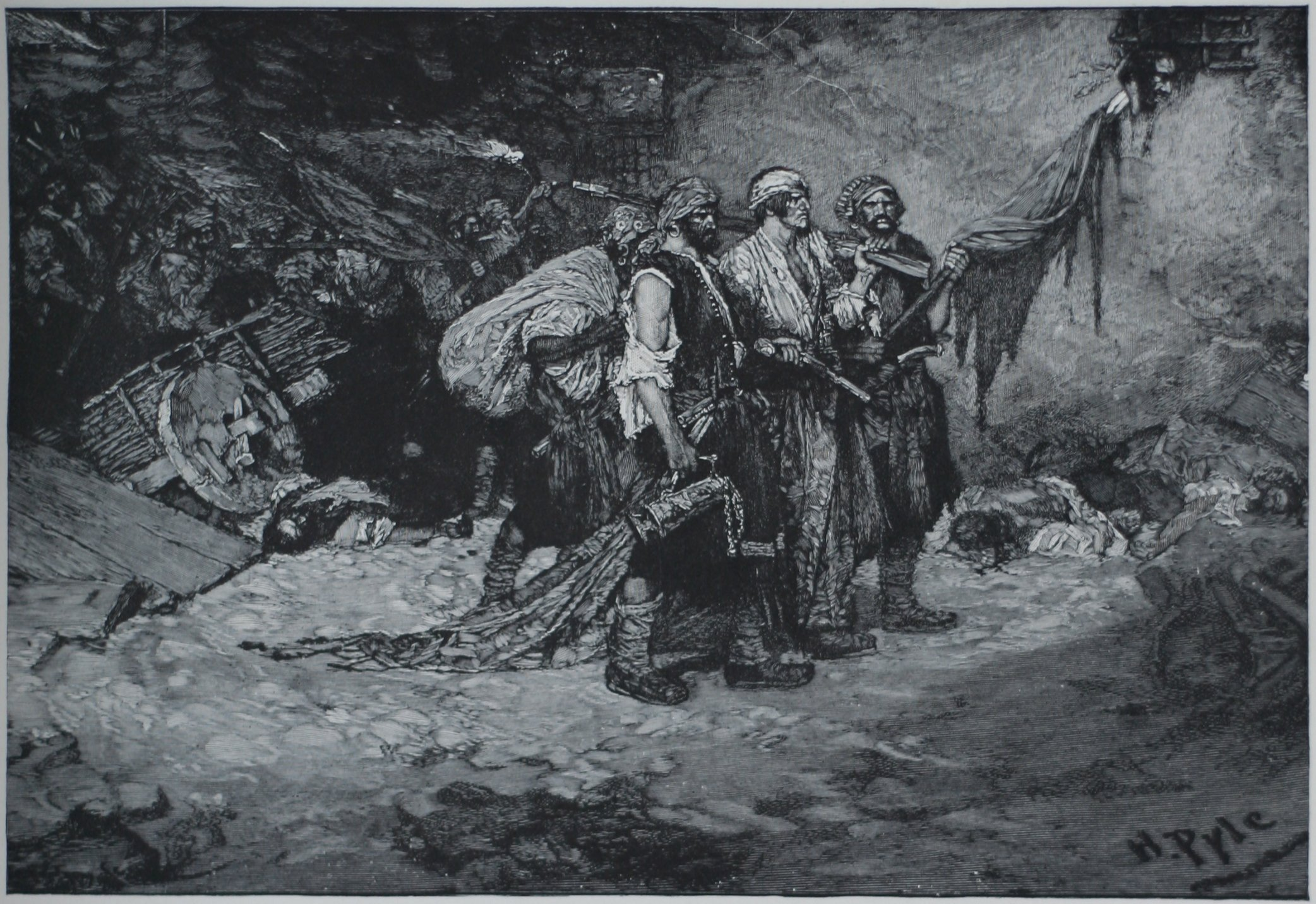 The Sacking of Panama: this was originally published in Pyle, Howard (August–September 1887). "Buccaneers and Marooners of the Spanish Main". Harper's Magazine.